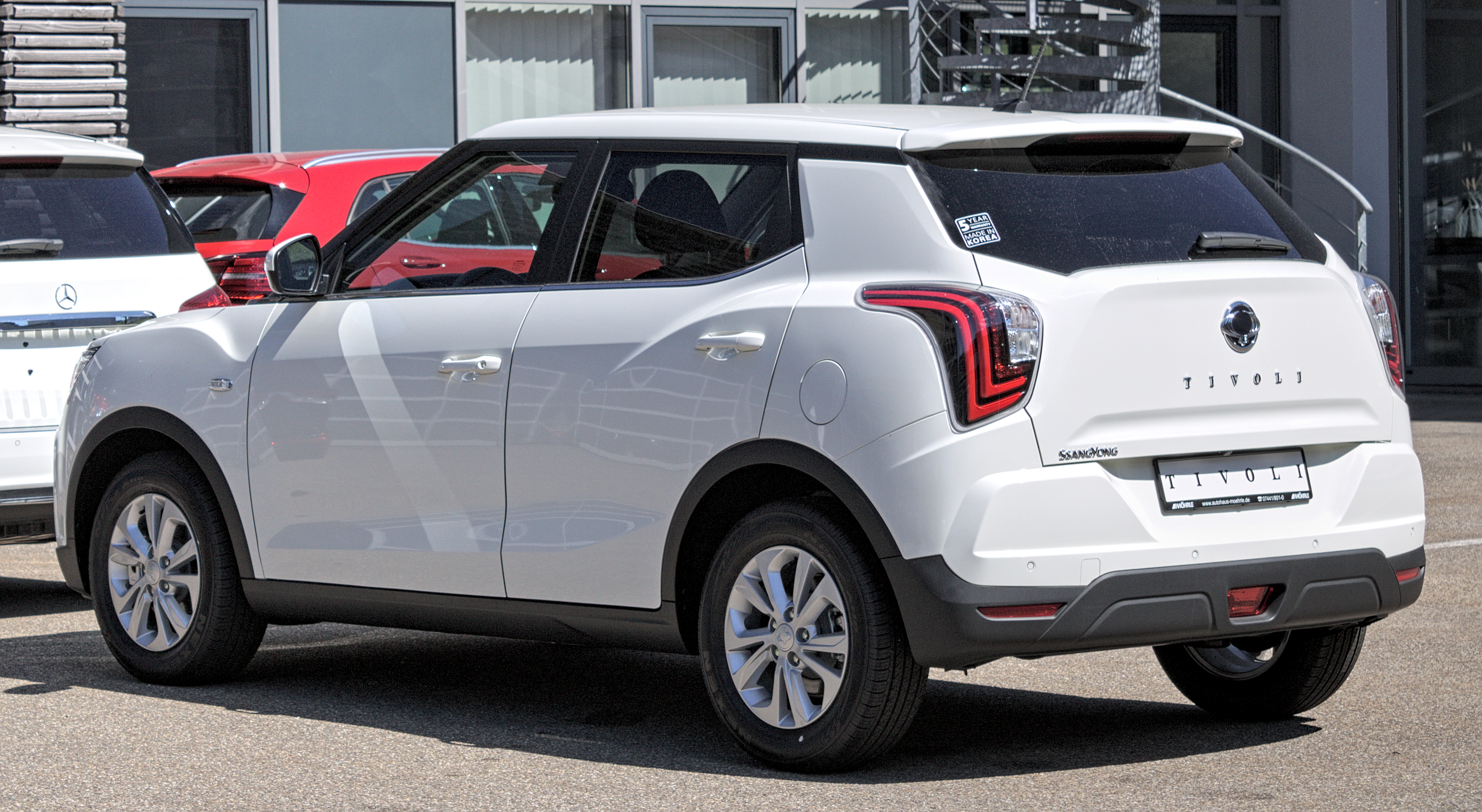 2020_SsangYong_Tivoli in Freudenstadt